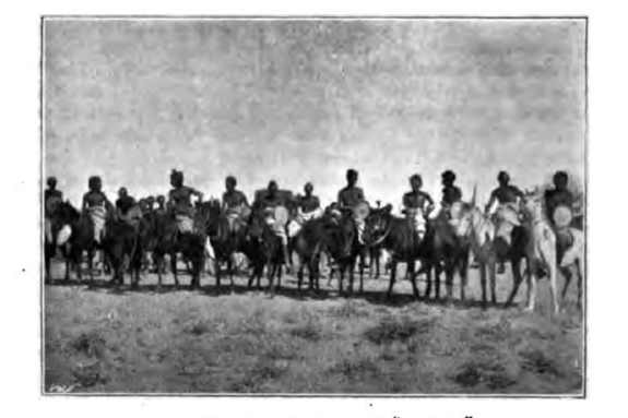 Monochrome photograph of Habr Je'lo riders, published in 1898.